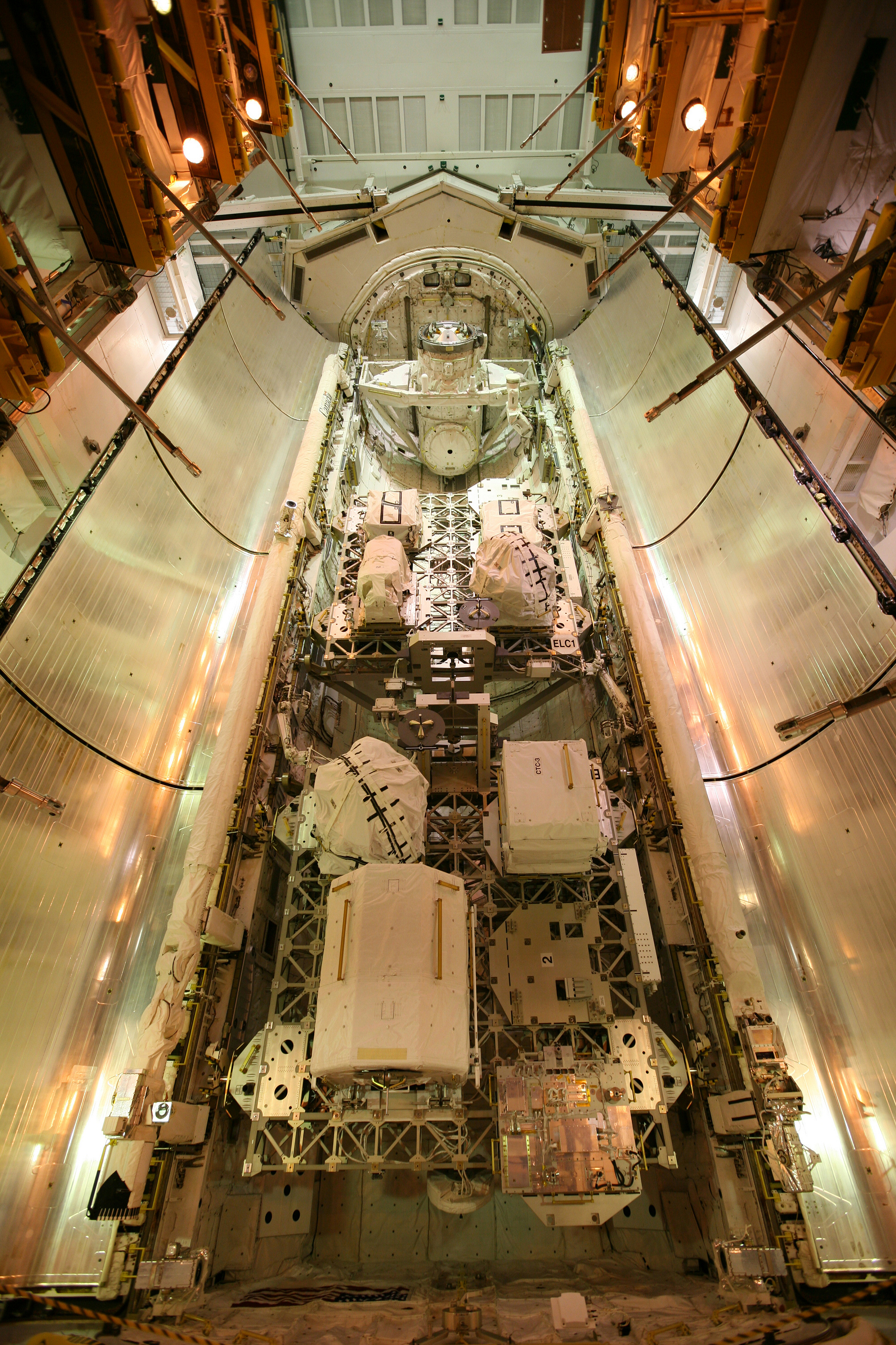 CAPE CANAVERAL, Fla. - At Launch Pad 39A at NASA's Kennedy Space Center in Florida, the payload for space shuttle Atlantis' STS-129 mission to the International Space Station, including the Express Logistics Carriers 1 and 2, has been transferred from the Payload Changeout Room into Atlantis' payload bay. The STS-129 crew will deliver two spare gyroscopes, two nitrogen tank assemblies, two pump modules, an ammonia tank assembly and a spare latching end effector for the station's robotic arm. Launch is set for Nov. 16. For information on the STS-129 mission, visit